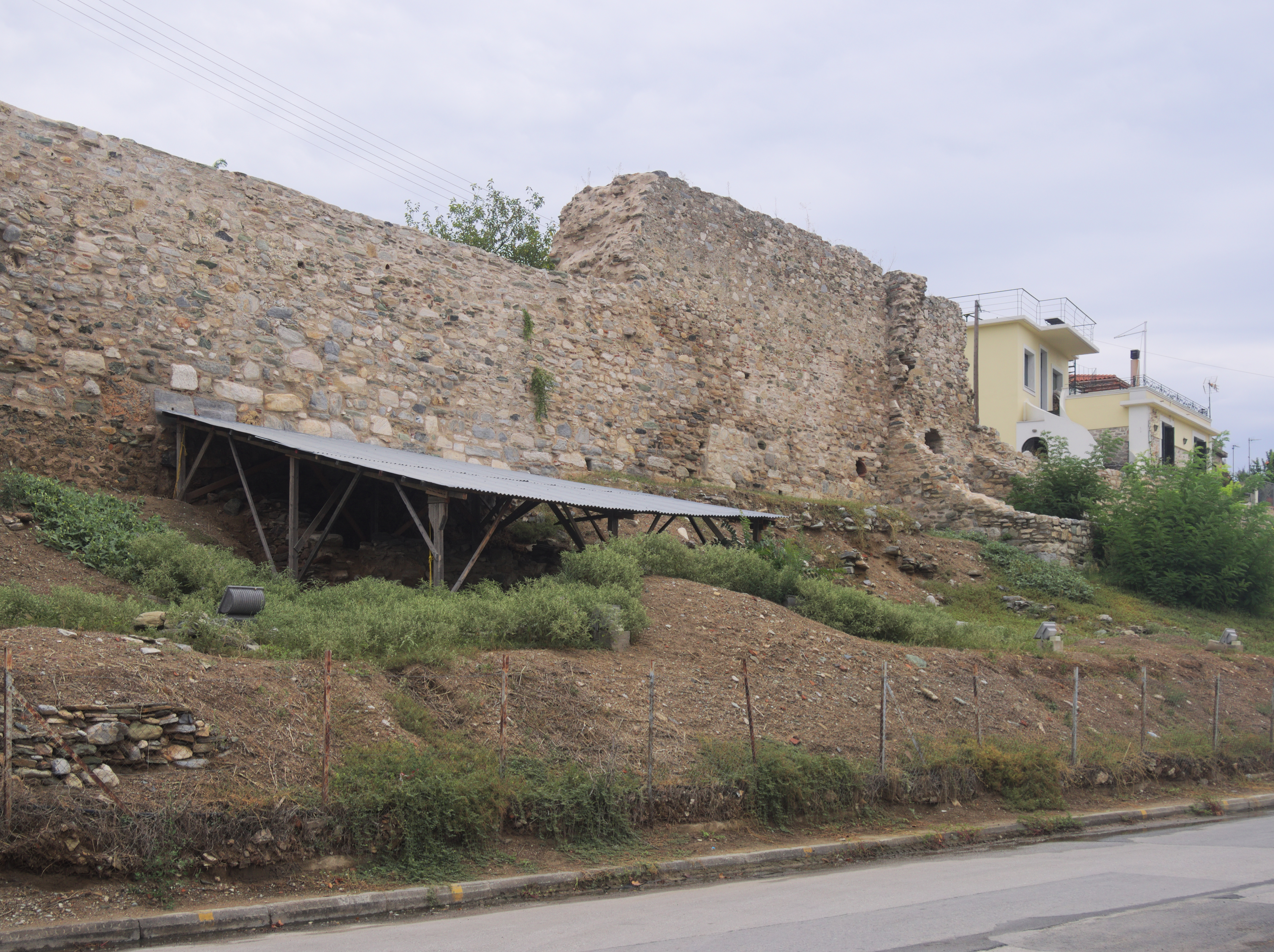 The walls of the castle of Volos, with part of the archaeological site of Volos.